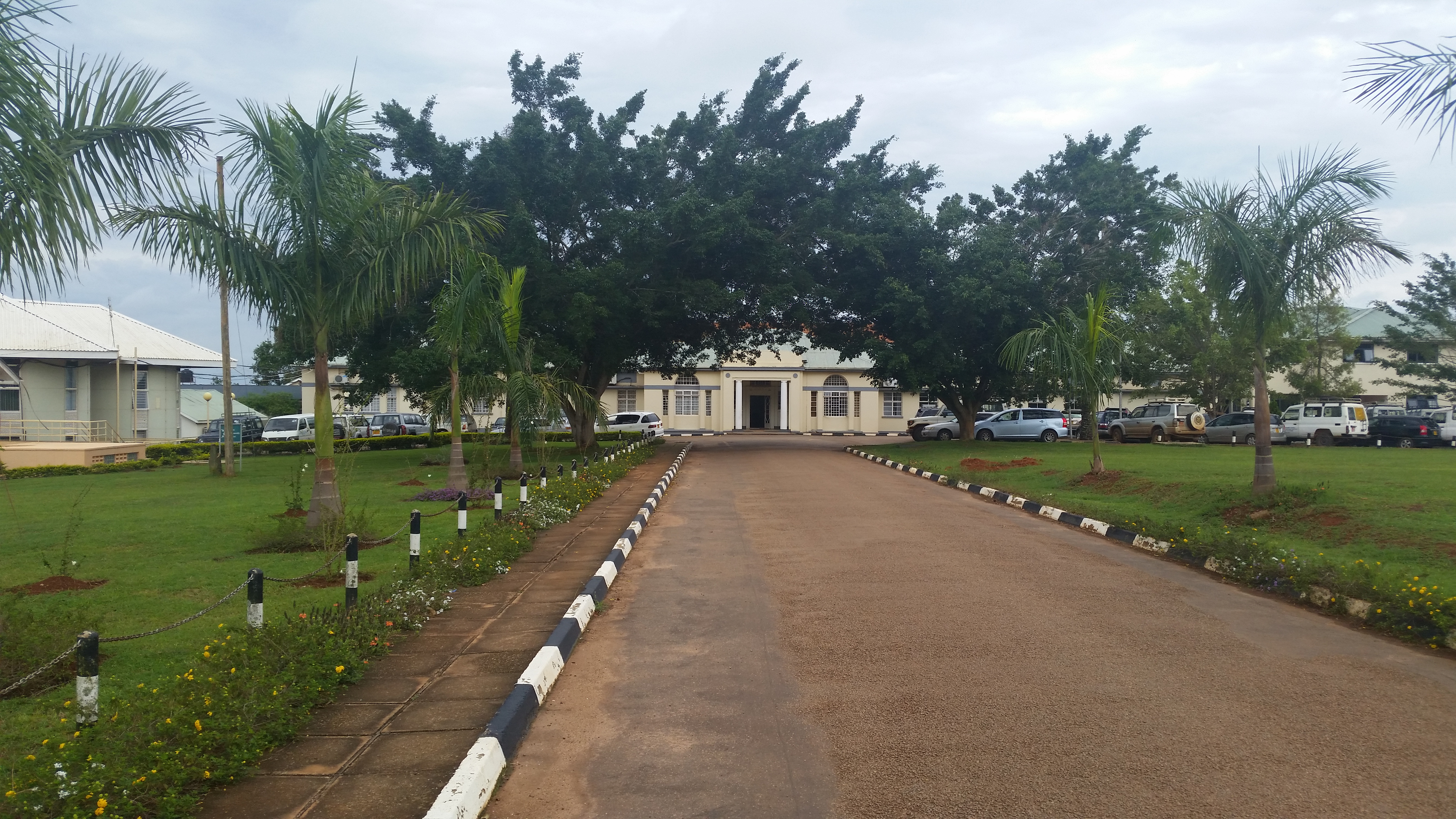 Photograph taken during a visit to the Uganda Virus Research Institute and the adjacent Zika Forest on 2 March 2018.